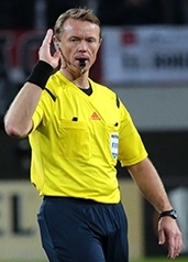 FC Lokomotiv Moscow vs Beşiktaş J.K. 2015–16 UEFA Europa League group stage match